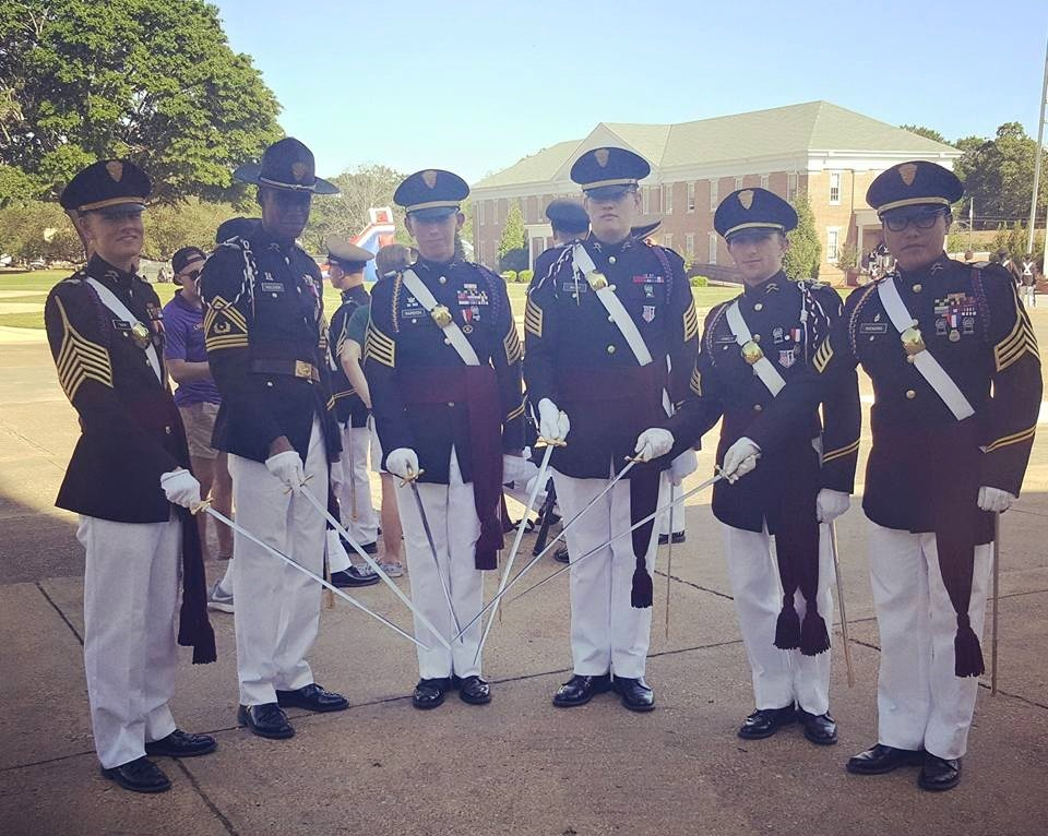 The HQ of Marion Military Institute Corps of Cadets after Alumni Weekend parade.